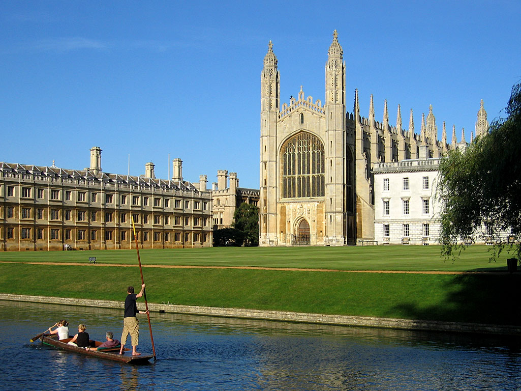 The west end of King's College Chapel seen from The Backs. Clare College Old Court is on the left. A group of people punting along the River Cam can be seen in the foreground.